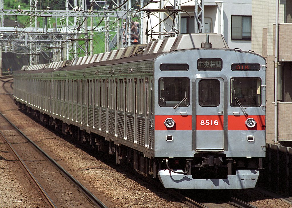 Tokyu Electric Railway type 8500（東急8500系） / Tokyu Den-en-toshi line Azamino Station（東急田園都市線 あざみ野駅）